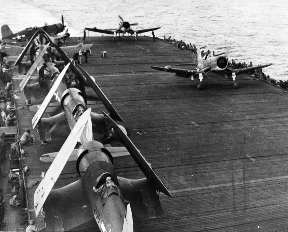 U.S. Marine Corps Vought F4U-2 Corsairs of Marine Night Fighting Squadron 532 (VMF(N)-532) aboard the escort carrier USS Windham Bay (CVE-92) on 12 July 1945.